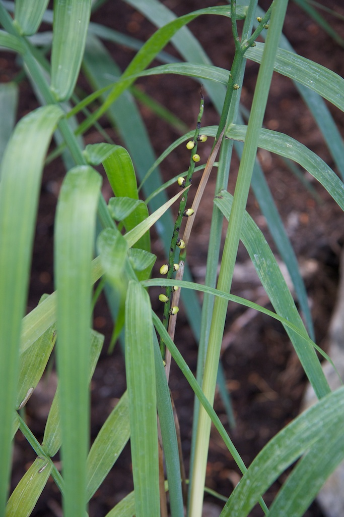 Chamaedorea radicalis palm with ripening fruit